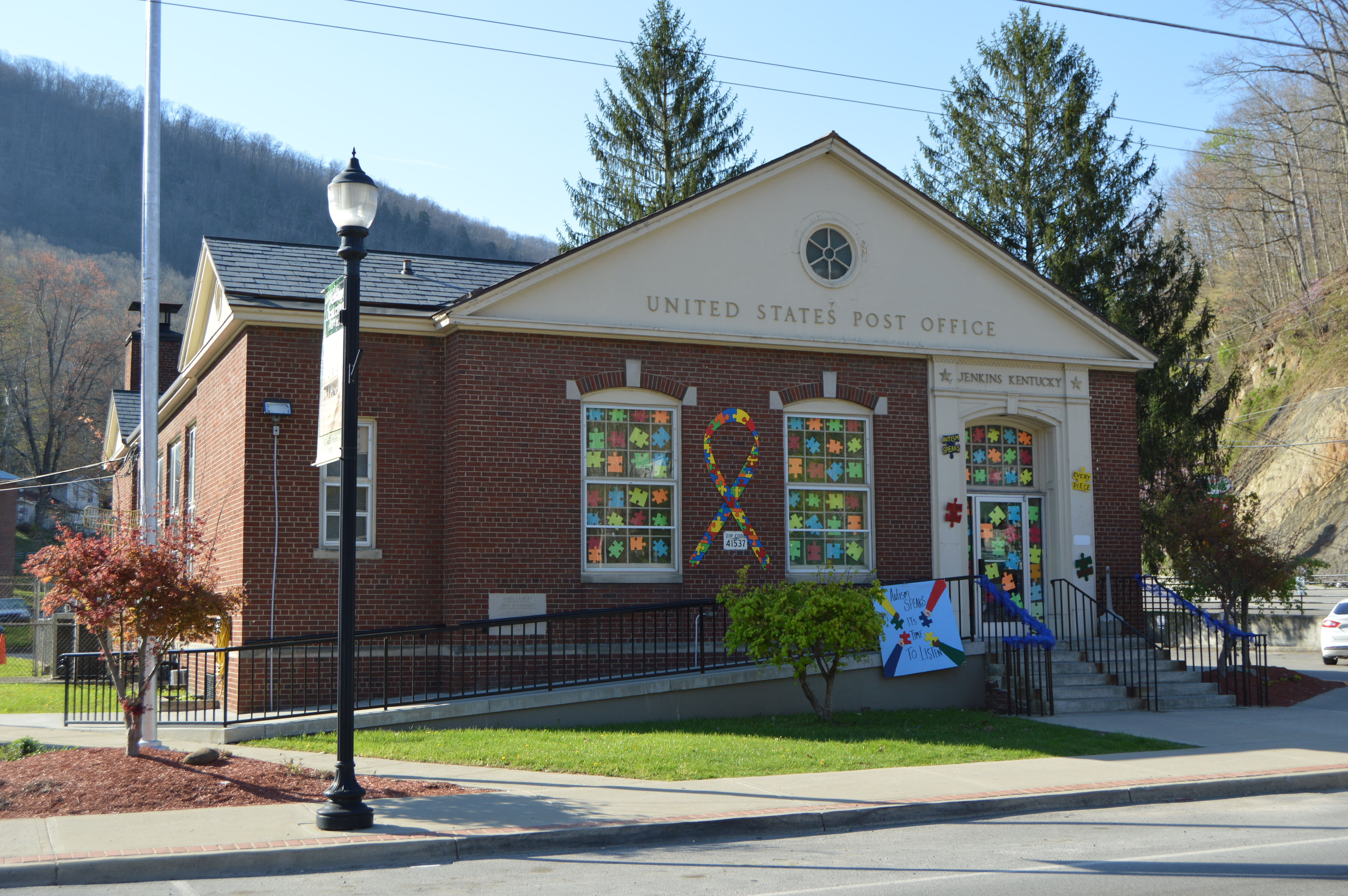 Front of the post office in Jenkins, Kentucky, United States, located on the eastern corner of the junction of Kentucky Route 3086 with Main Street (Kentucky Route 805).